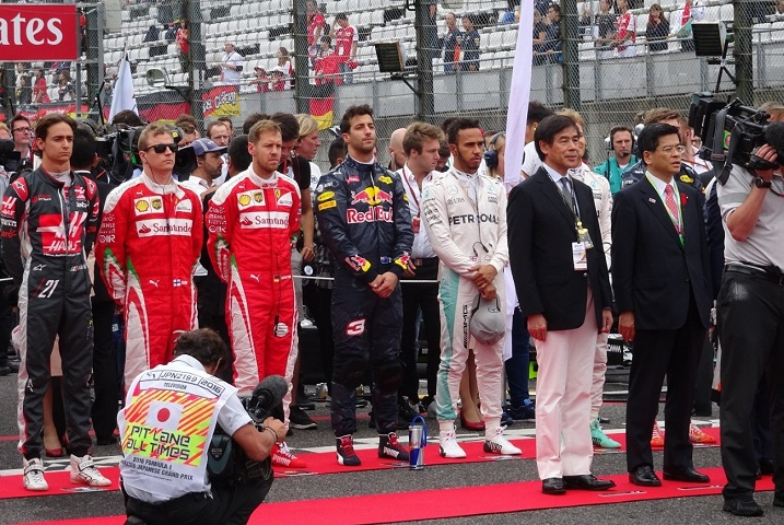 Formula One 2016 Rd.17 Japanese GP: National anthem ceremony before the race